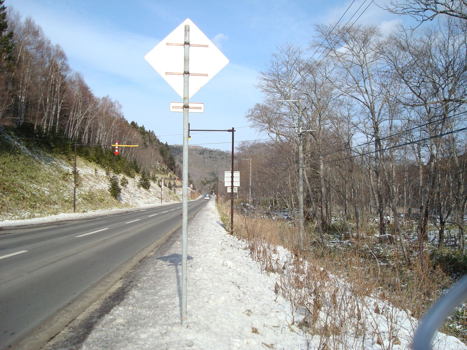 Japan route 240 alongside Akan river at Kushiro city, Hokkaido, Japan.